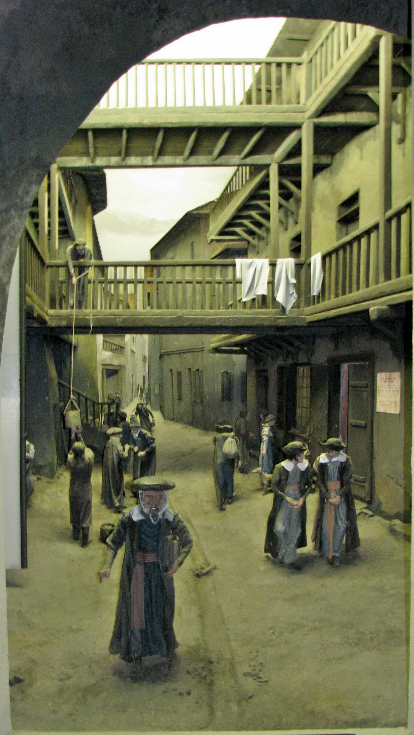 This is a photo of an exhibit at the Diaspora Museum, Tel Aviv - Beit Hatefutsot. It depicts the Jewish quarter at Lublin